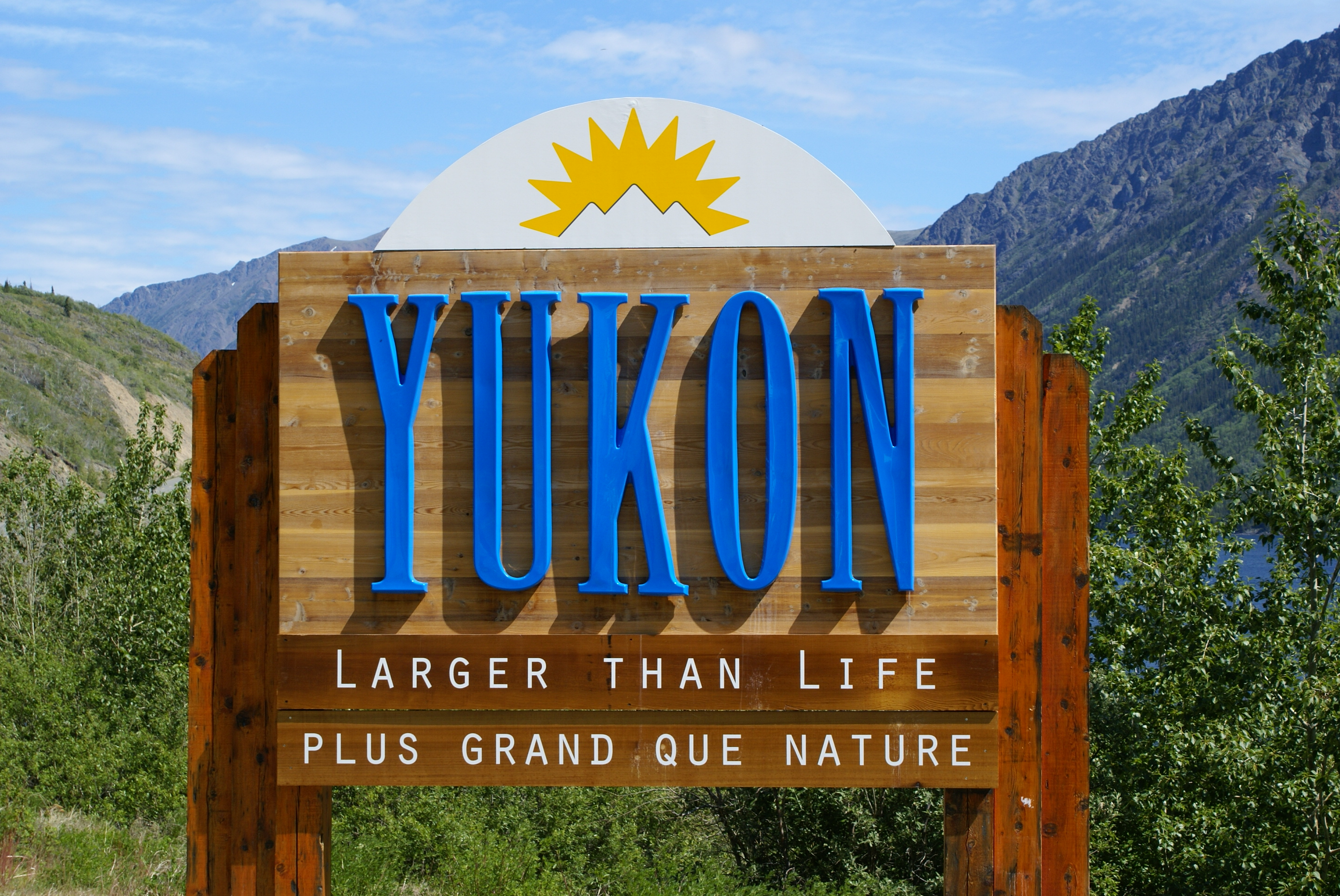 Entering the Yukon Territory of Canada